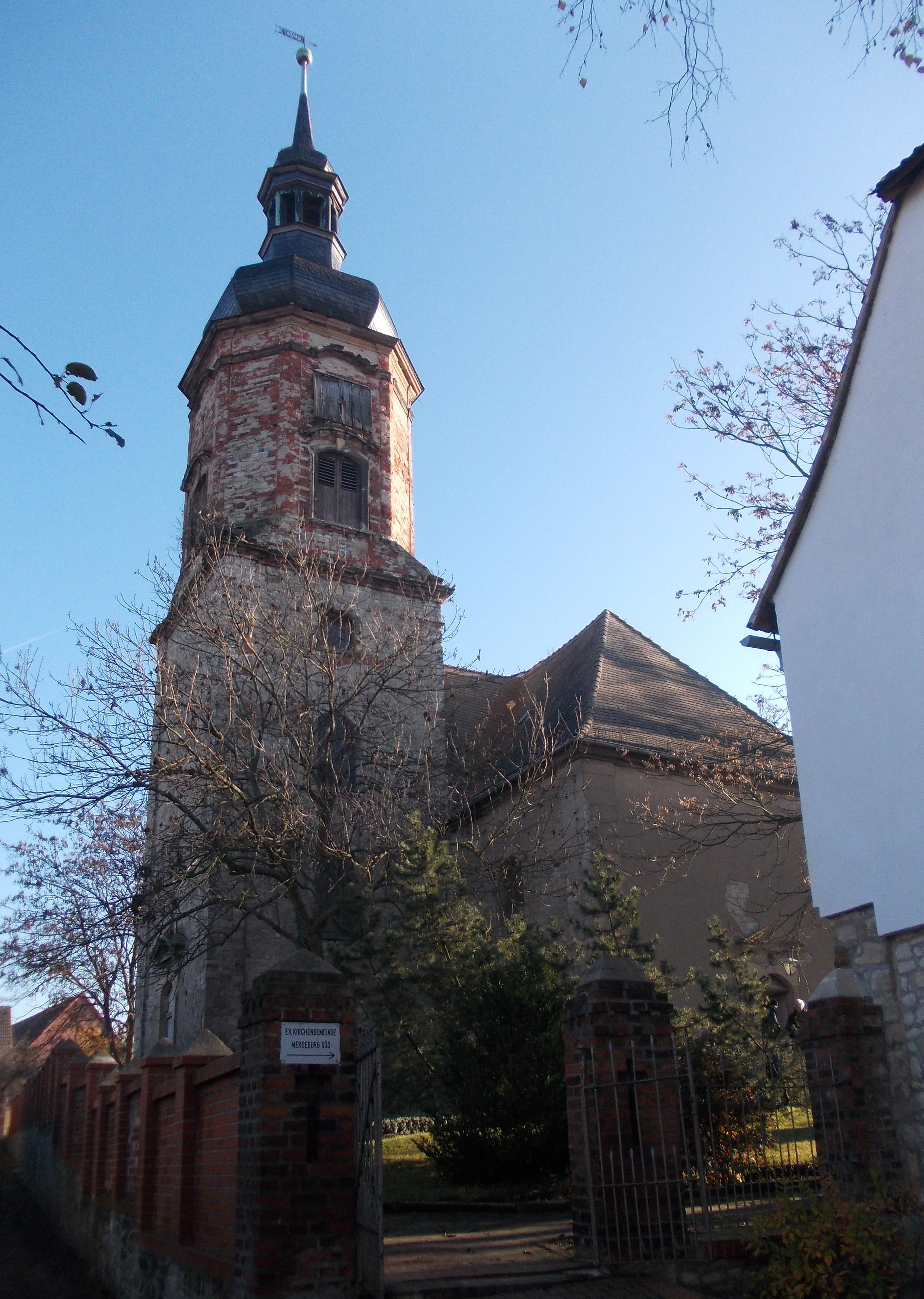 Kötzschen church (Merseburg, district: Saalekreis, Saxony-Anhalt)